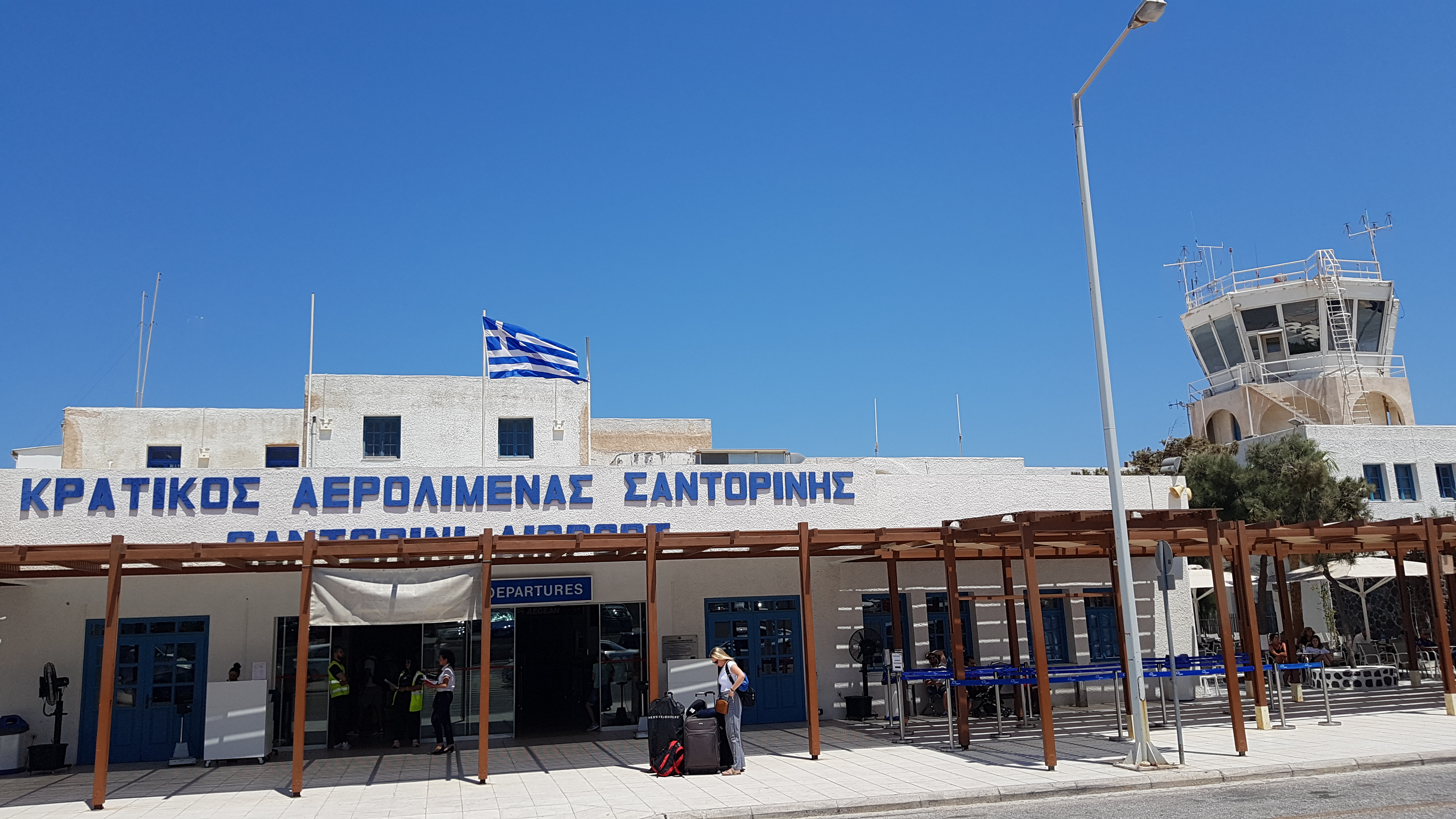 Main Building of Santorini Airport